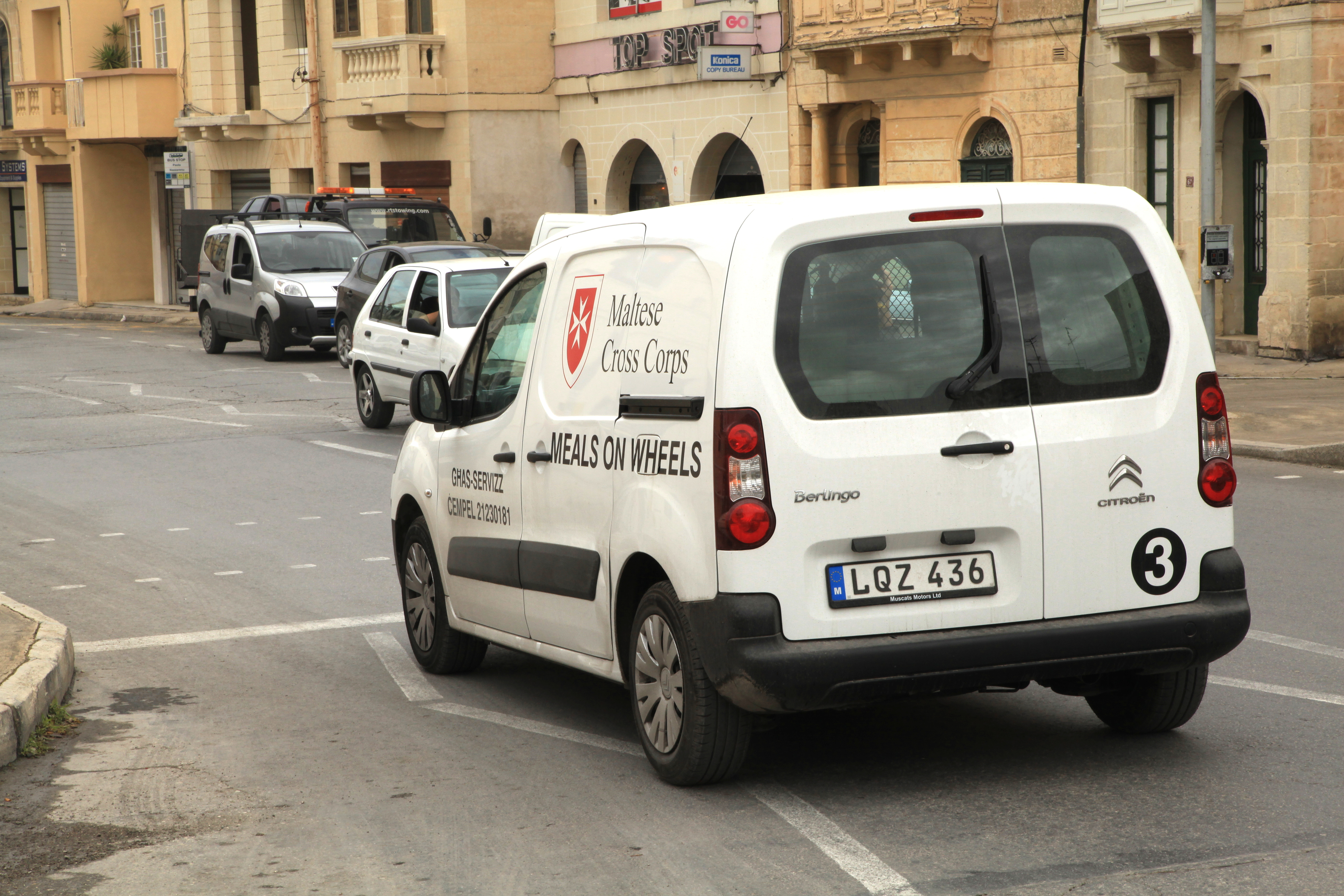 Triq Ħal-Luqa in Tarxien, Malta